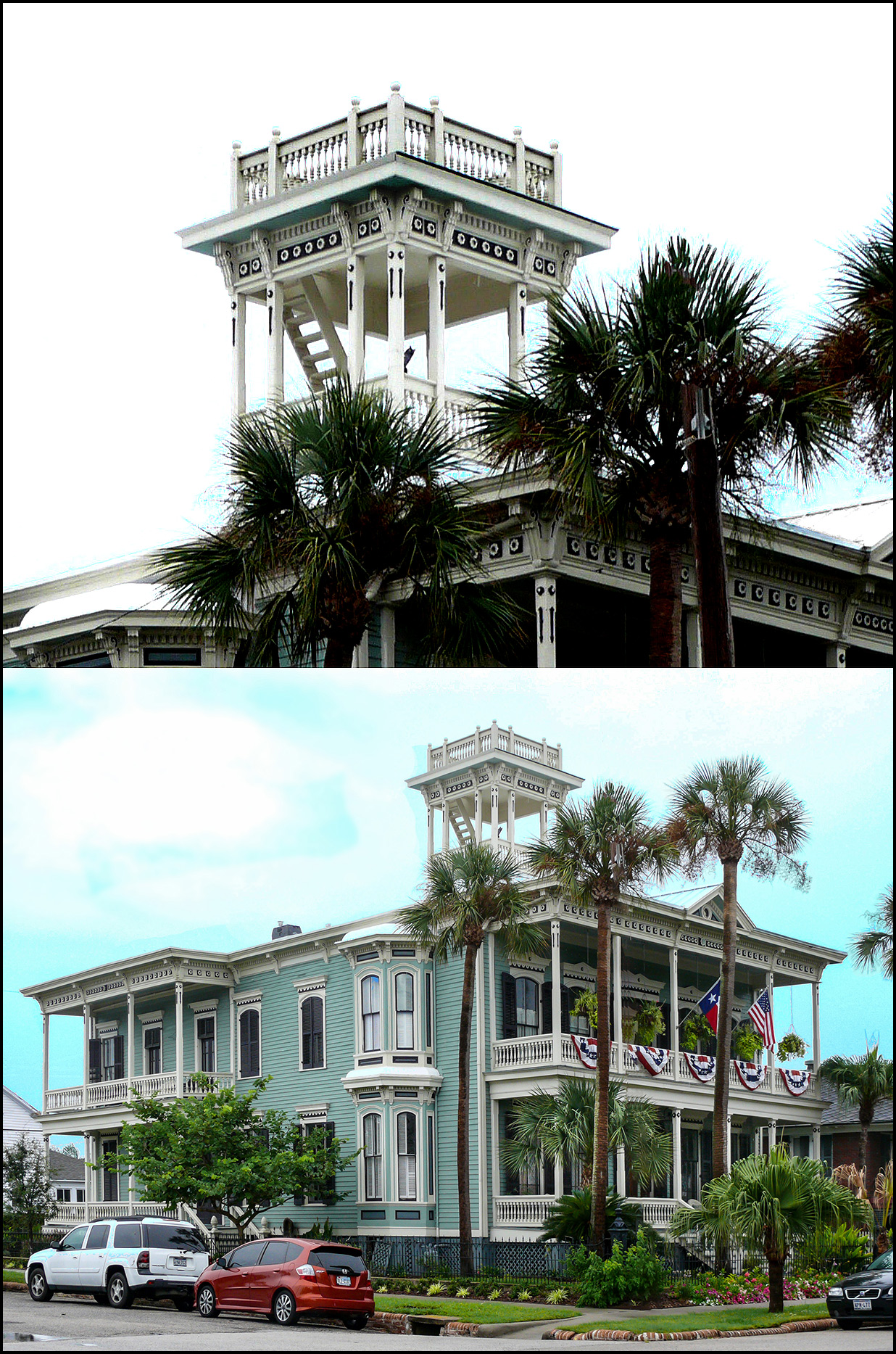 Belvedere on the Julius H. Ruhl Residence in Galveston. Also, called a "Widows Walk" in this case because they were used by wives to watch for husbands returning from sea voyages.